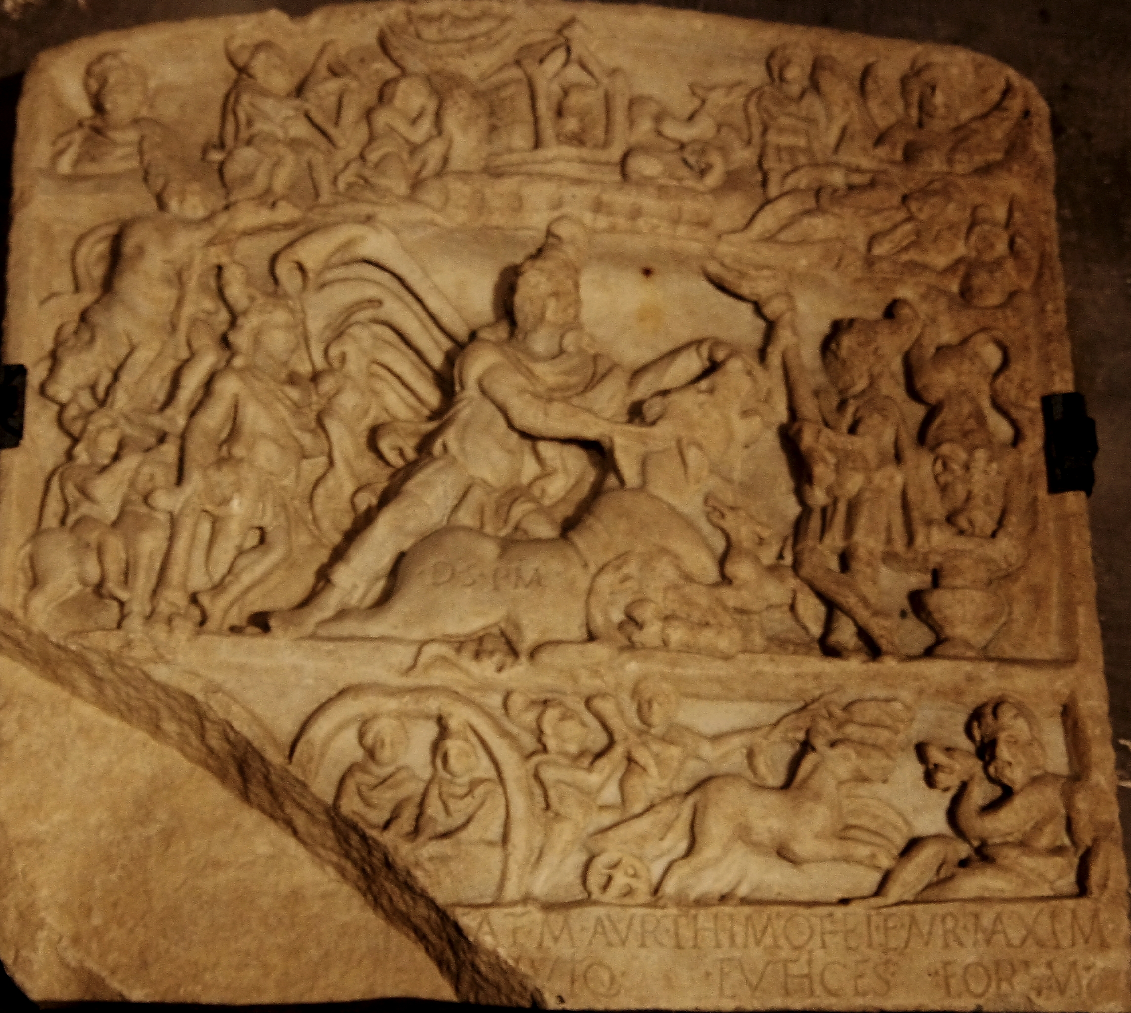 CIMRM 1935: Tauroctonous Mithras from the Mithraeum Alba Julia, at the Castrum Maros-Porto, Colonia Nova Apulensis (Castrum Maros-Porto is near the present-day "Galgenberg", Mureş Port, Romania). Now at Brukenthal National Museum, Sibiú (Nagy Szeben = Hermannstadt), Romania.